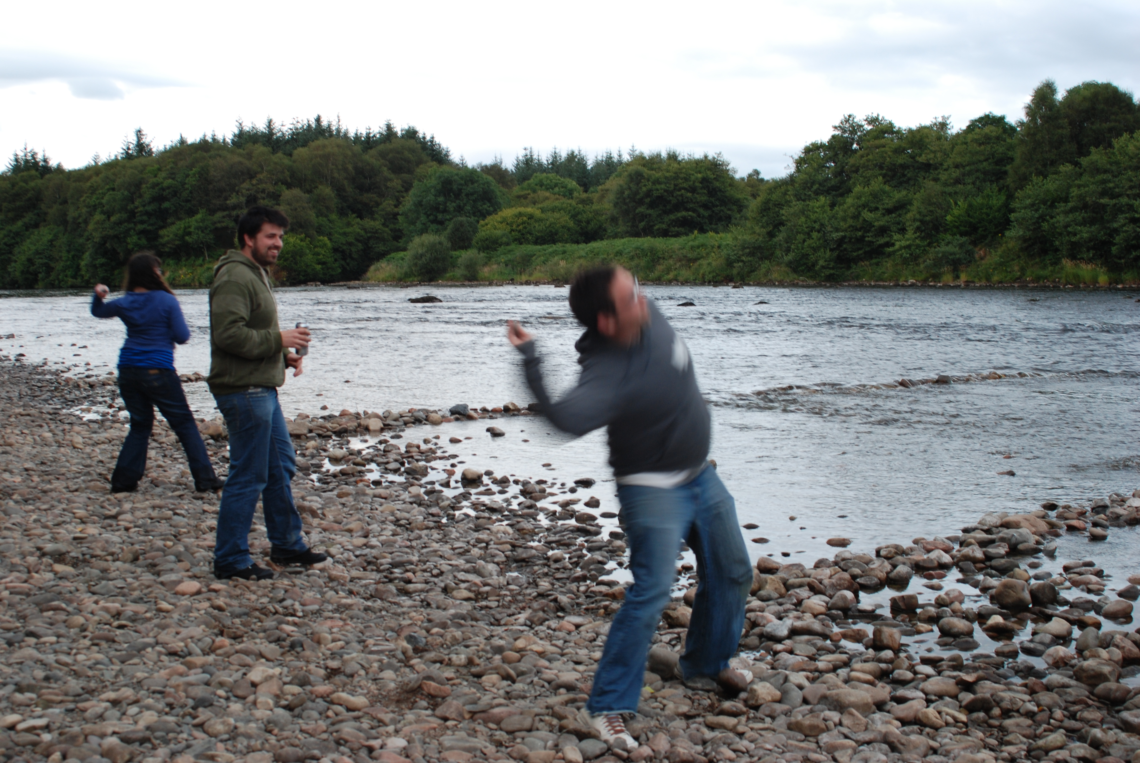 Throwing a stone into the river.